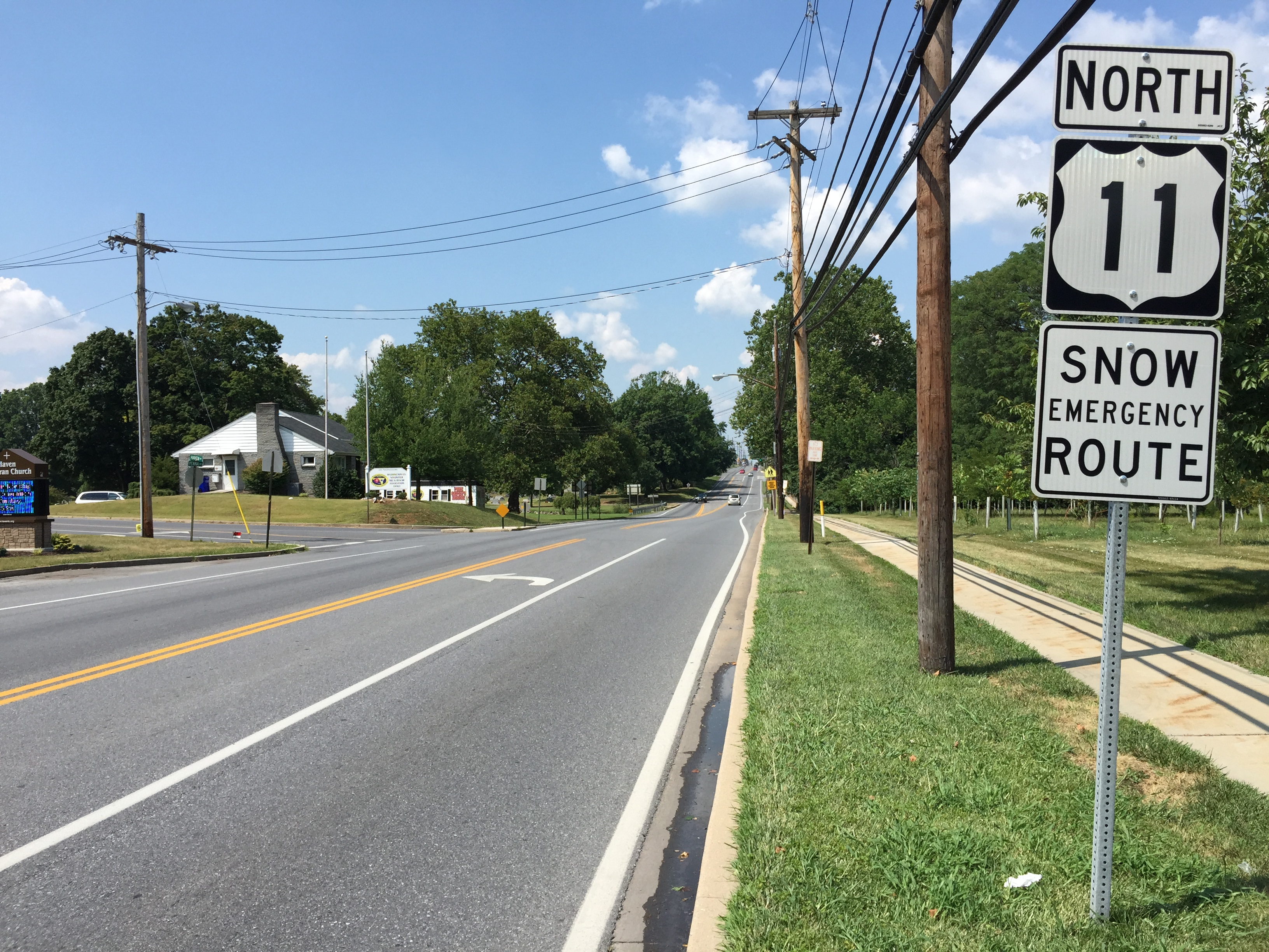 View north along U.S. Route 11 (Pennsylvania Avenue) between Fairview Road and Haven Road in Hagerstown, Washington County, Maryland